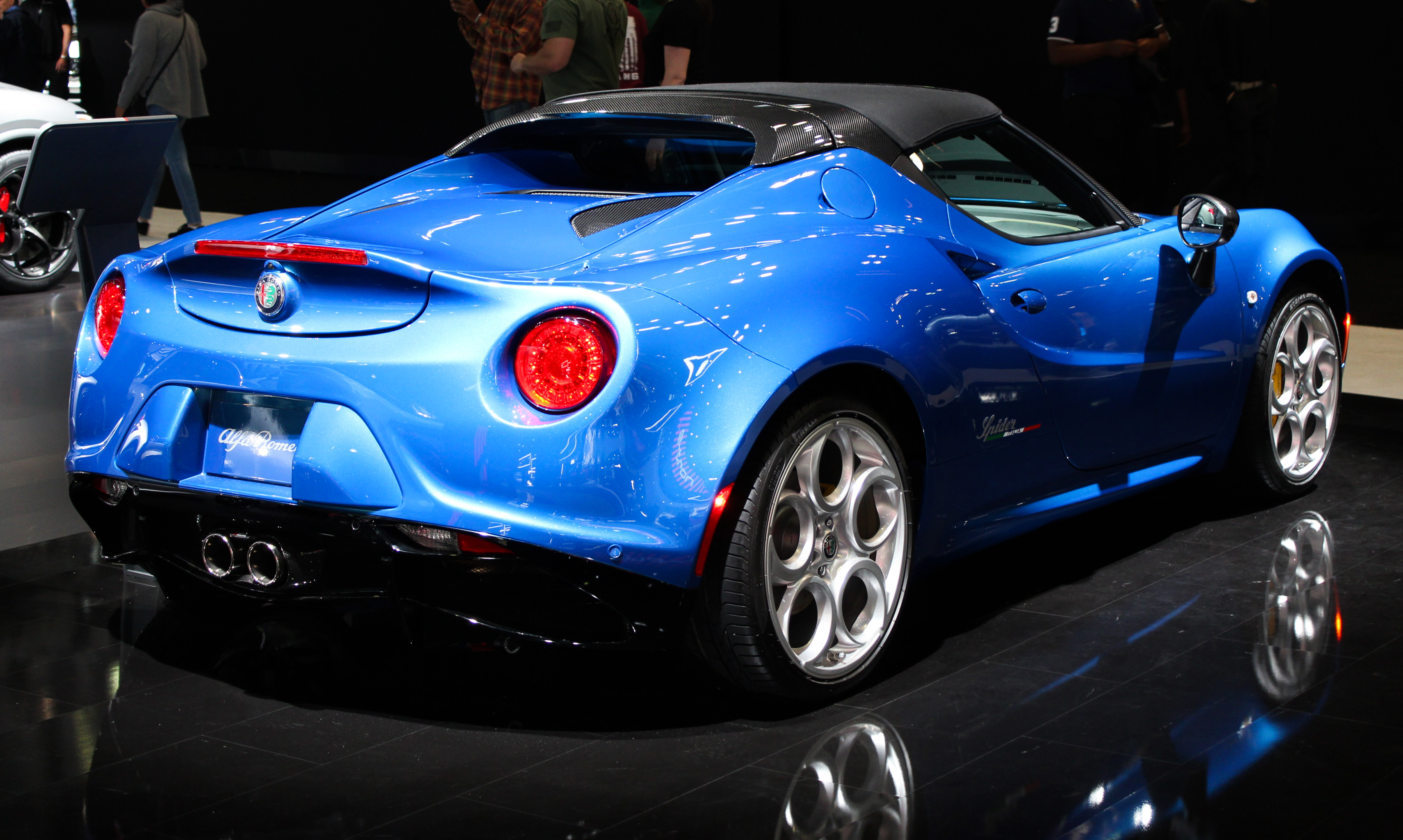 A 2019 Alfa Romeo 4C Spider photographed during the 2019 New York International Auto Show, in Hudson Yards, Manhattan, NYC